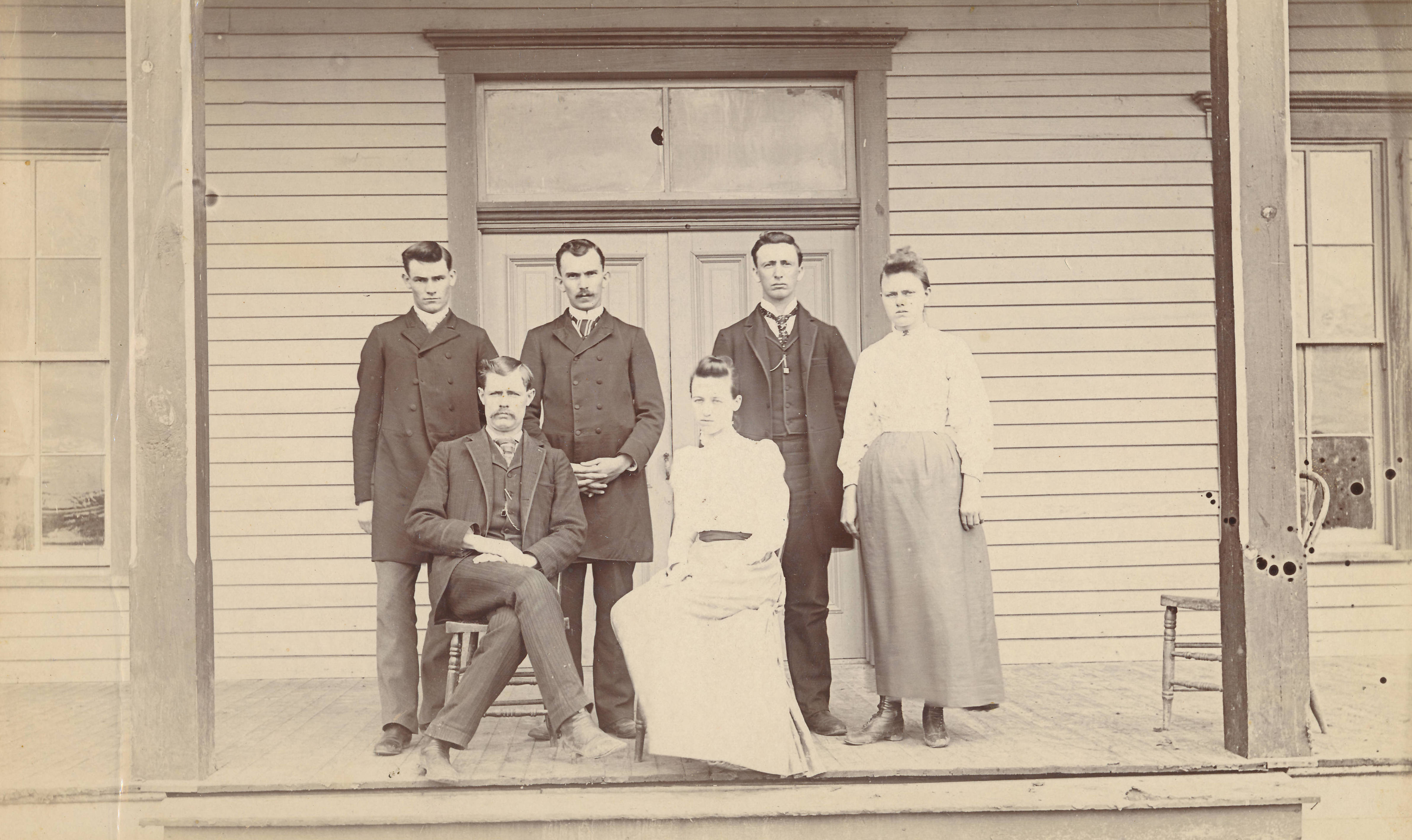 East Texas Normal College students pose on the front porch of the original college building in Cooper. Founded in 1889, the Cooper campus offered courses from the elementary through the college level. The two-story frame building in Cooper housed the school and President William L. Mayo’s family. A fire destroyed the building in 1894, one of the events that prompted the relocation of the campus to Commerce.